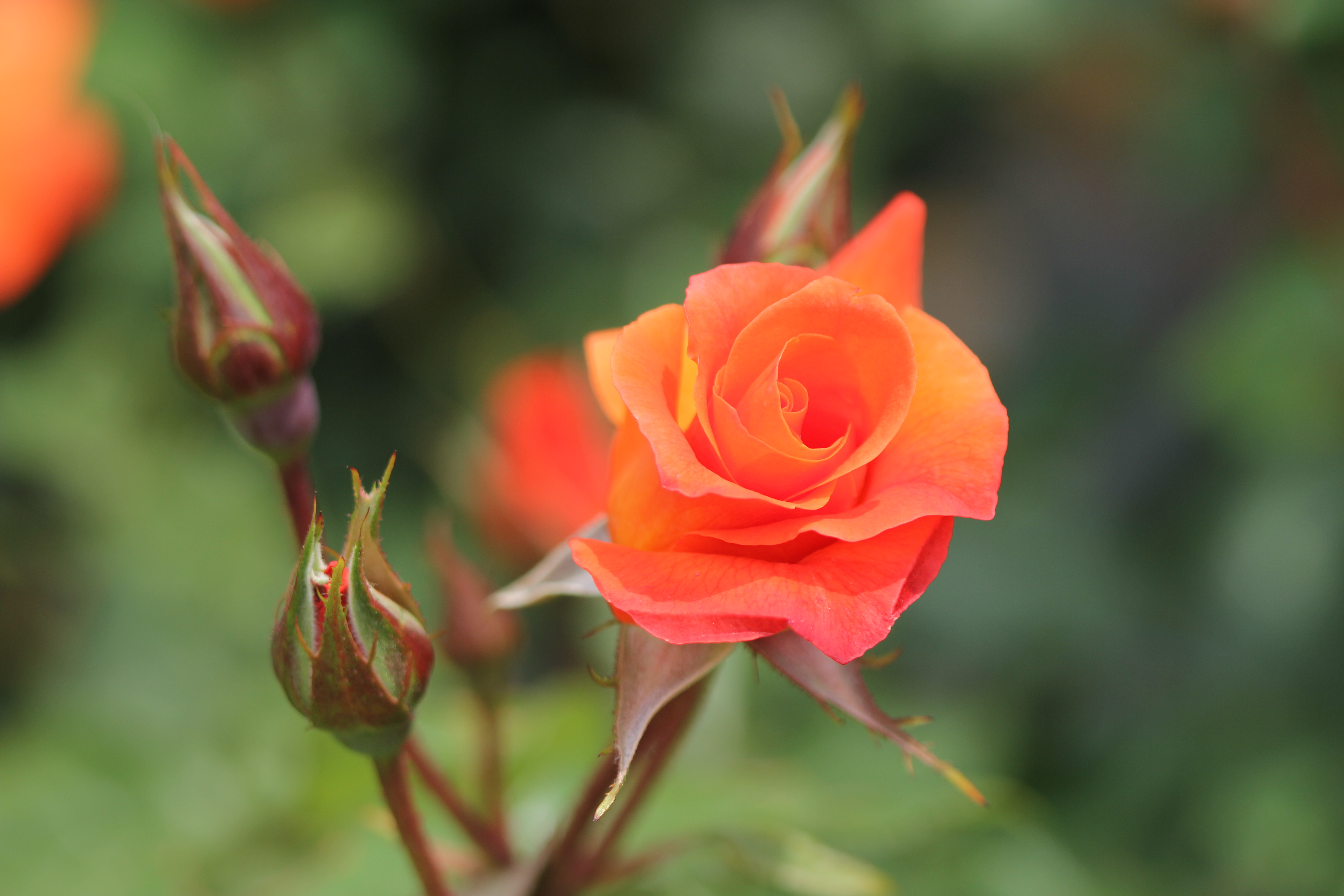 Rosa 'Princess Michiko'